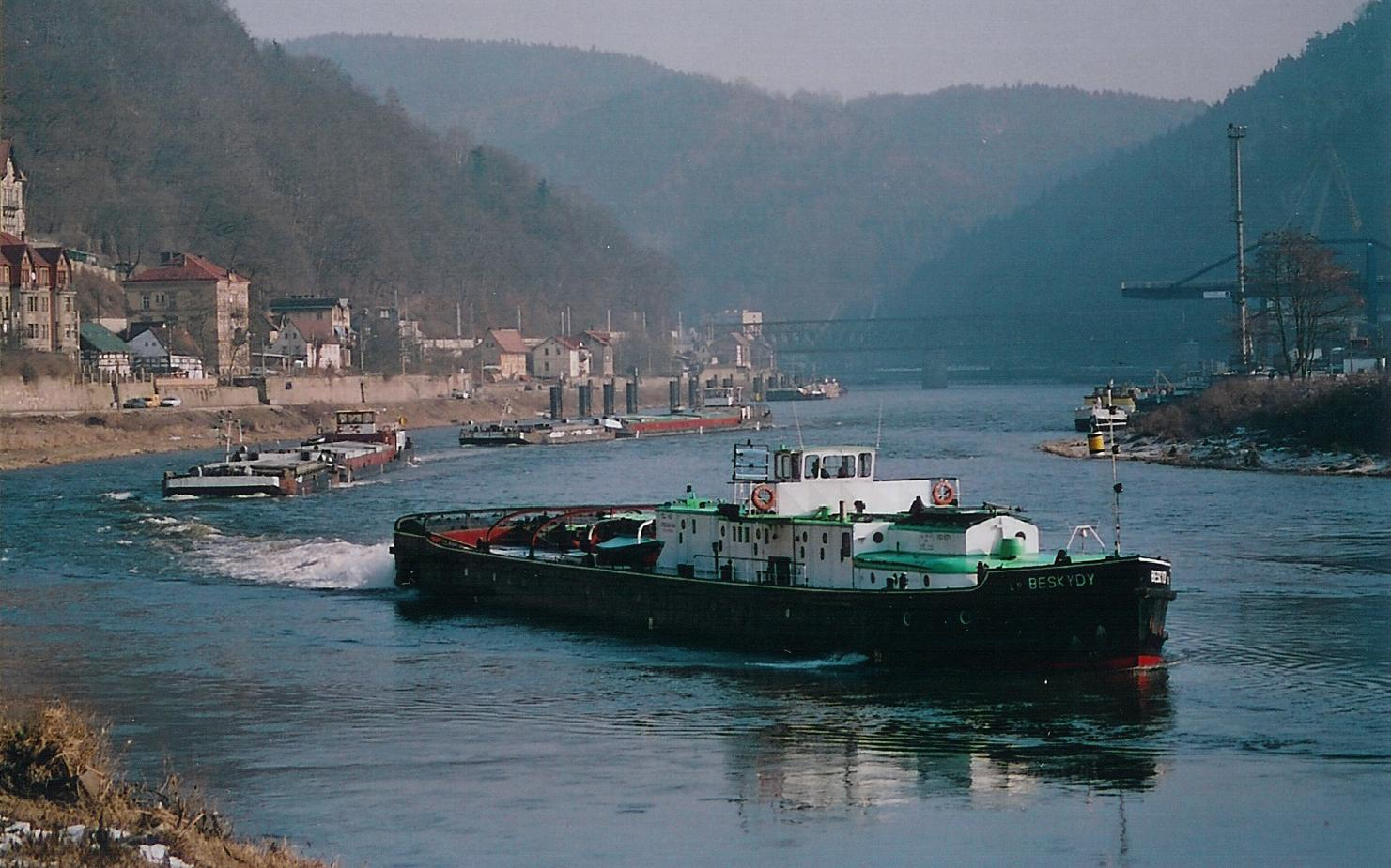 Tug Beskydy with two push convoys at Elbe river in Decin Builder: Milnik Tsjechie Date of completion: 1956 LOA: 57.00 m Beam: 9.20 m Maximum Draft: 0,80 m Displacement: 200 tons (UK) Bridge Clearance: 4.00 m Headroom: 2.10 m Engines: CKD, 550 hp Cruising Speed: 25 kph Česky: Vlečný remorkér se závěsem dvou tlačných soulodí na Labi v Děčíně